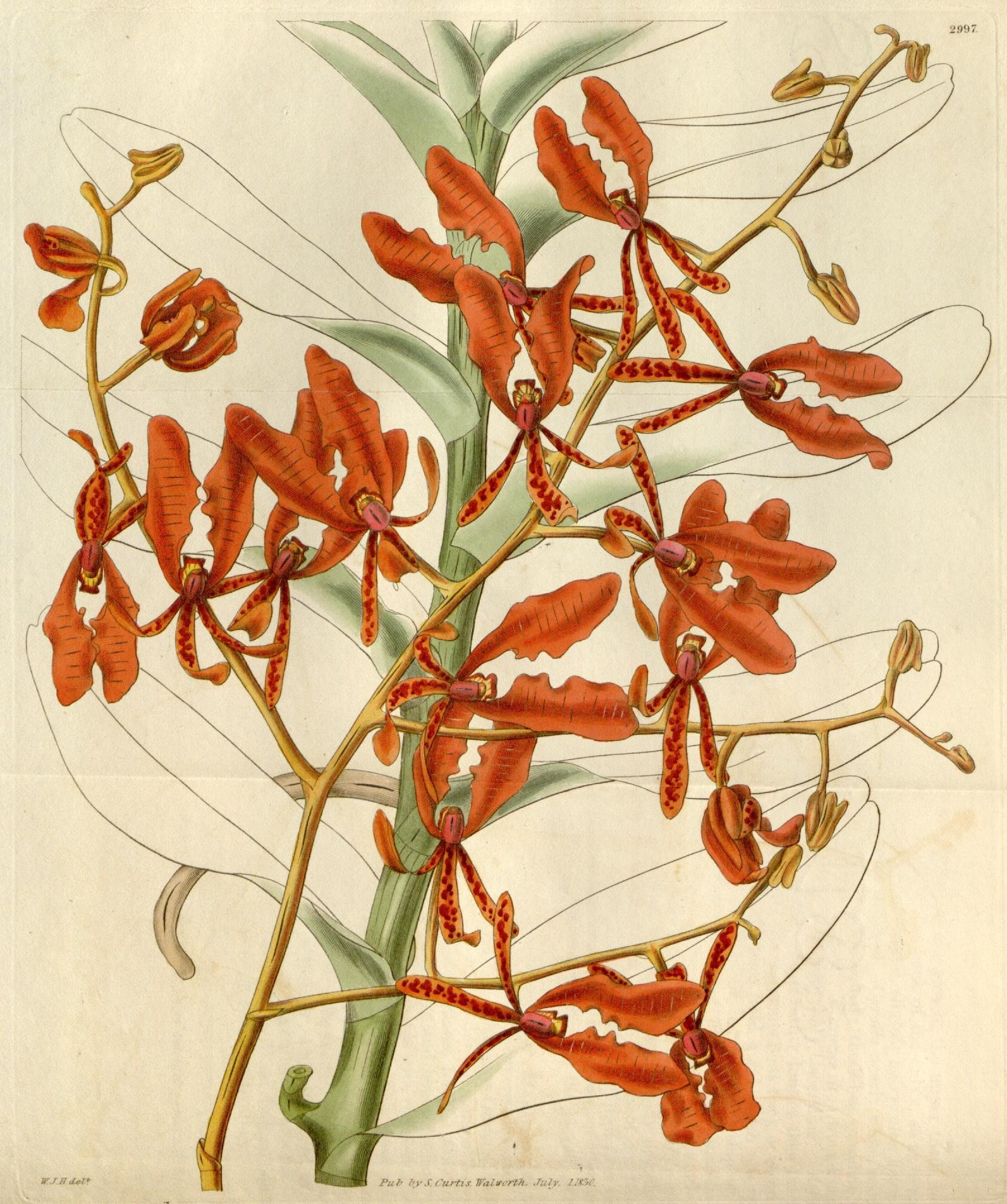 Curtis's botanical magazine.